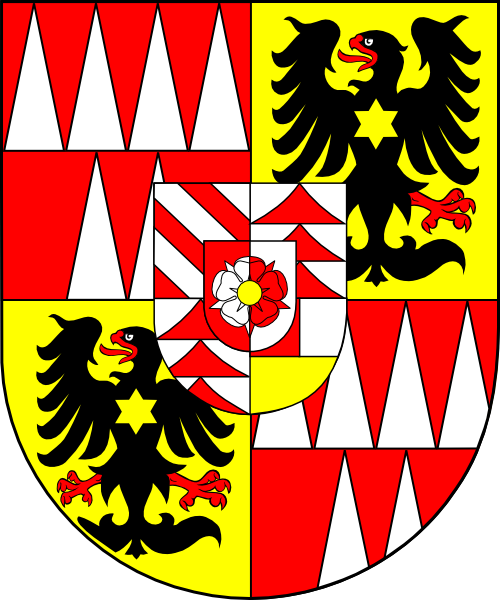 Coat of arms (shield only) of Maria Thaddäus Cardinal von Trautmannsdorff-Weinsberg, bishop of Trieste, Italy (1793 - 1794), bishop of Hradec Králové, Czech Republic (1795 - 1814), archbishop of Olomouc, Czech Republic (1814 - 1819).